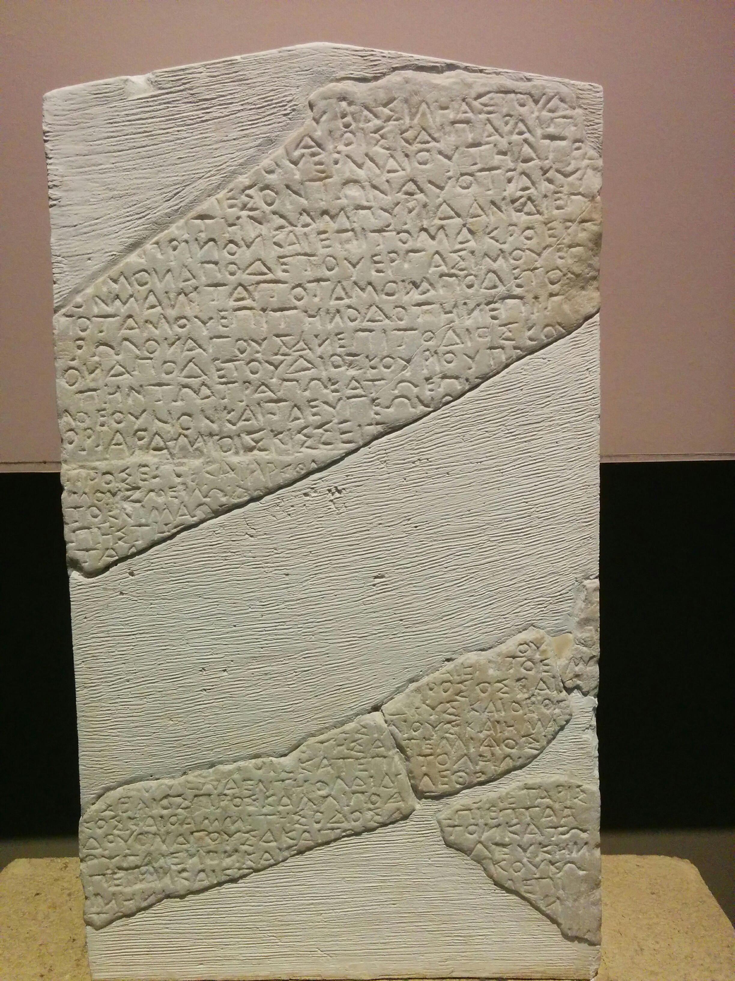 350 B.C. royal decree in Mt Cholomontas, Chalkidiki; settling the boundaries between cities north of Chalkidiki. Features marking the borders are: - landscape features, such as the rivers Ammites and Manes, the Hermaion mountains etc - placenames, such as Heptadryon, Prinos, Lefki Petra etc - rural sanctuaries, like Hermaion, Dioskourion, sanctuary of Artemis - roads, paths and private lands, i.e. the fields owned by Eugeon Archaeological Museum of Thessaloniki